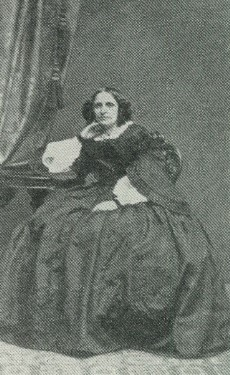 Louise Hagströmer (née Kyntzell, b. Sept 25, 1826, d. Oct 28, 1875), wife of Swedish army officer, estate owner and member of the riksdag Johan Jacob Hagströmer (1820-1887)